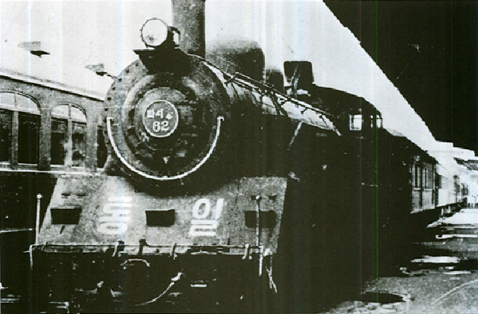 KNR steam locomotive Pasi4-62 in 1955.